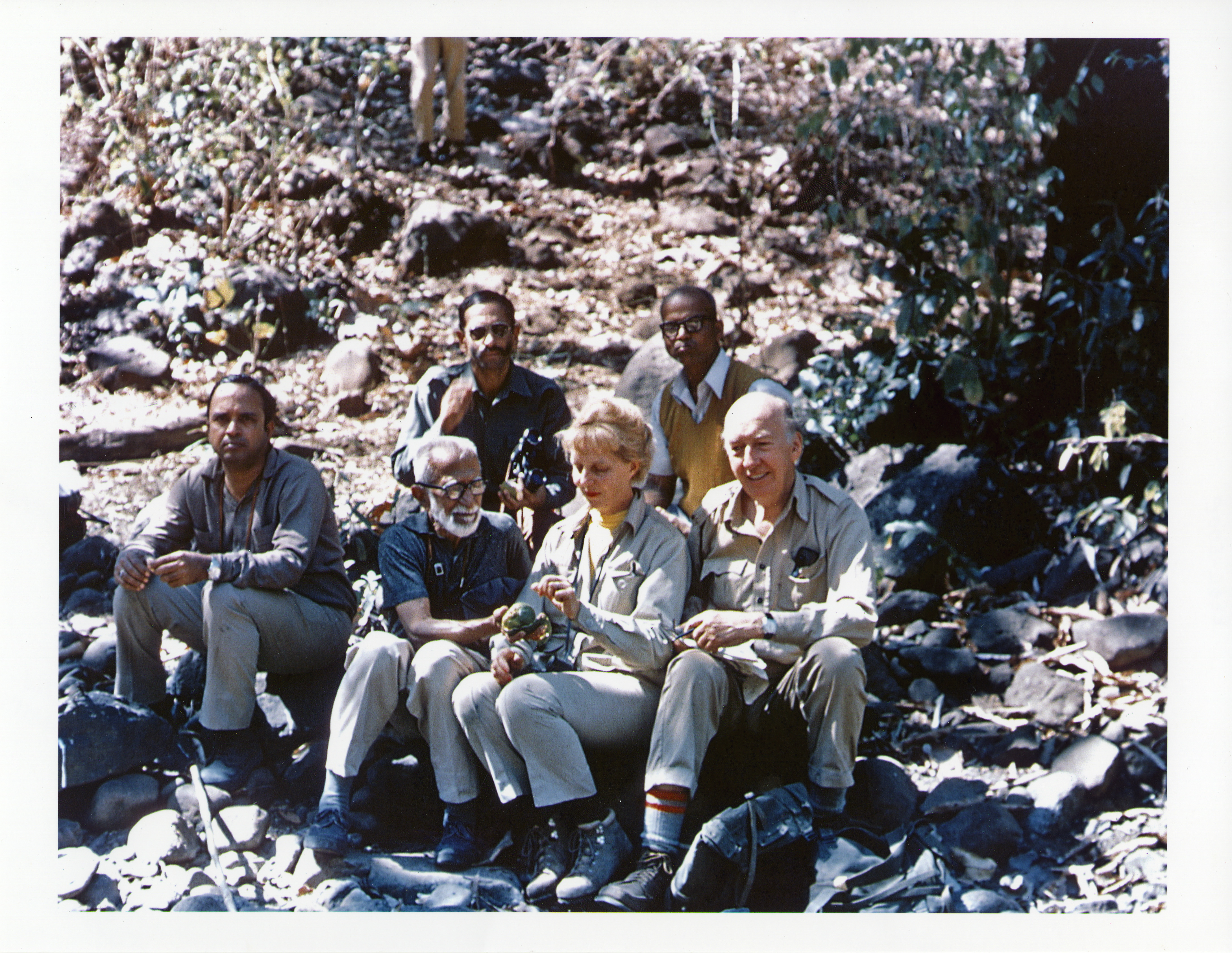 In 1976 S. Dillon Ripley (1913-2001), ornithologist and eighth Smithsonian Secretary made a trip to India to conduct research with Salim Ali for their Handbook of the Birds of India and Pakistan. Left to right in first row: An unidentified person, Salim Ali (1896-1987), Ripley's wife Mary Livingston Ripley (d. 1996), and Ripley sit on a hillside in India. Left to right in back row: An unidentified man holding binoculars, and Mr P.B. Shekar, one time collections specialist of the Bombay Natural History Society, and a regular camp member of Dr. Ripley's expeditions in India. Mr. Ali is holding a broken fruit in his hand which he is offering to Mary Ripley. Mary Ripley was an amateur botanist and entomologist, and on their field trips she would collect insect and plant specimens for the National Museum of Natural History and the National Orchid Collection. Medium: C-type print Persistent URL: Repository: Smithsonian Institution Archives Accession number: SIA2007-0155